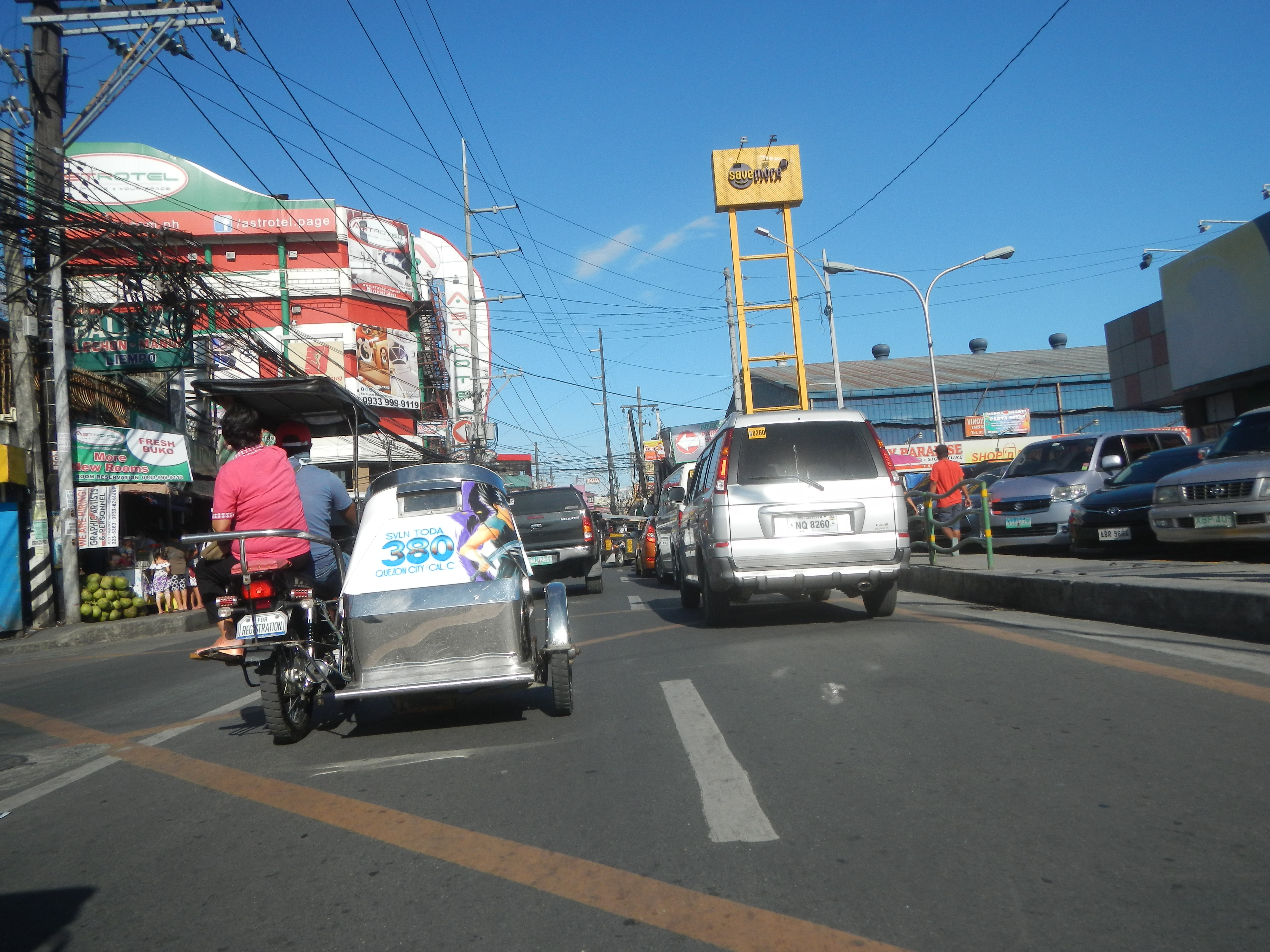 General Luis Street, Novaliches, Quezon City Novaliches, District, Quezon City (Note: Judge Florentino Floro, the owner, to repeat, Donor Florentino Floro of all these photos hereby donate gratuitously, freely and unconditionally all these photos to and for Wikimedia Commons, exclusively, for public use of the public domain, and again without any condition whatsoever).